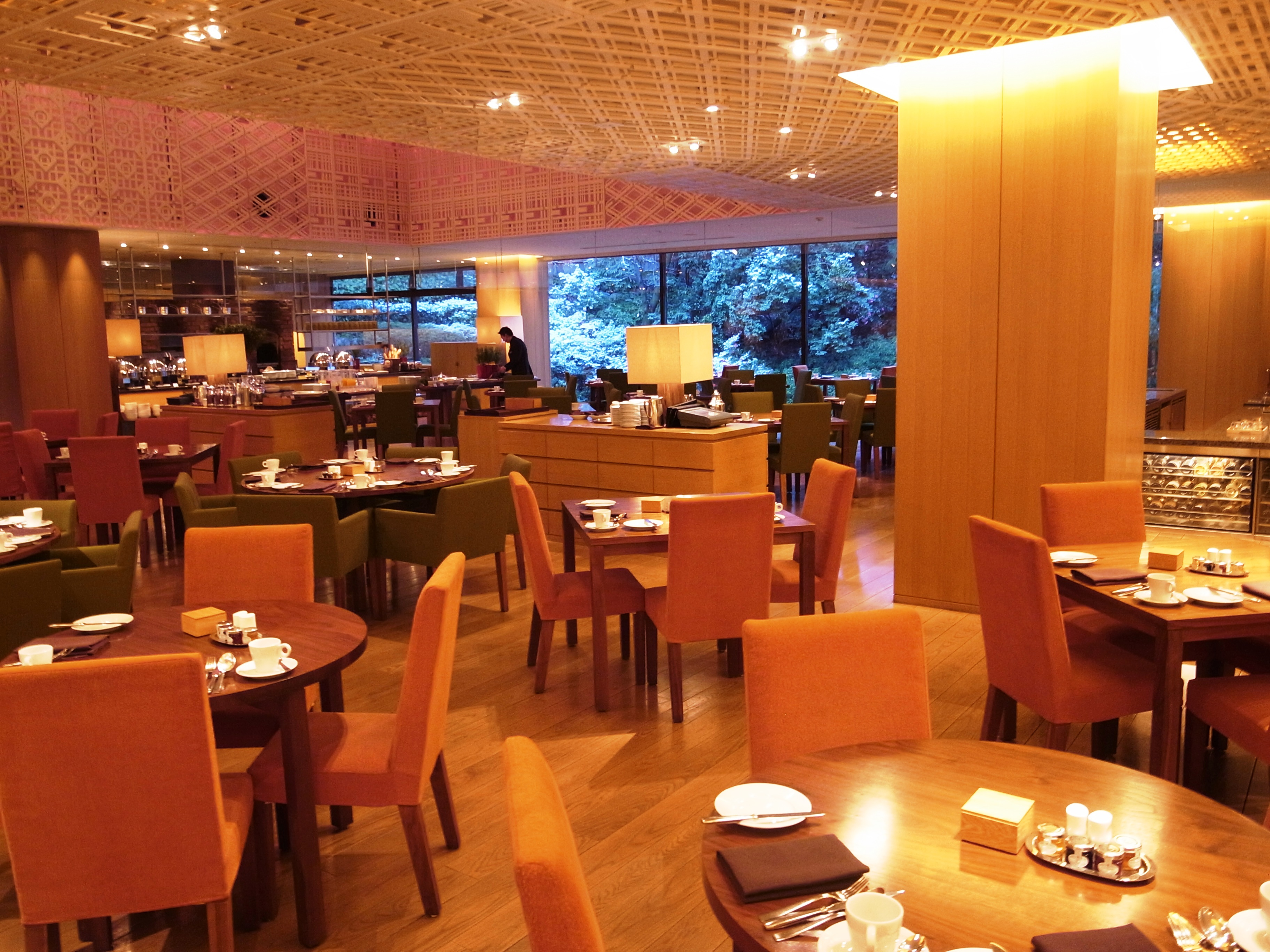 HyattRegencyKyotoGrill